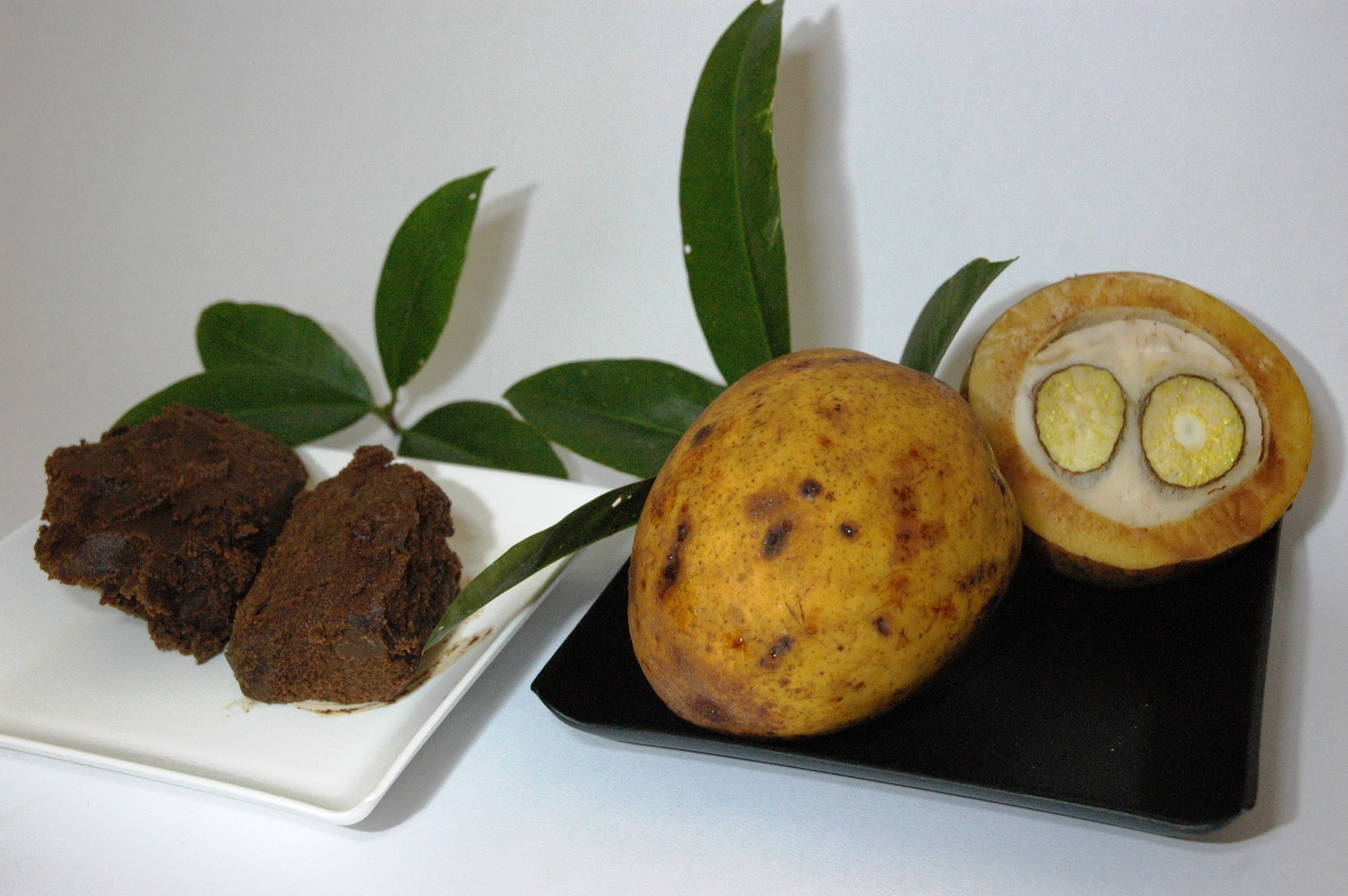 Bcuri butter